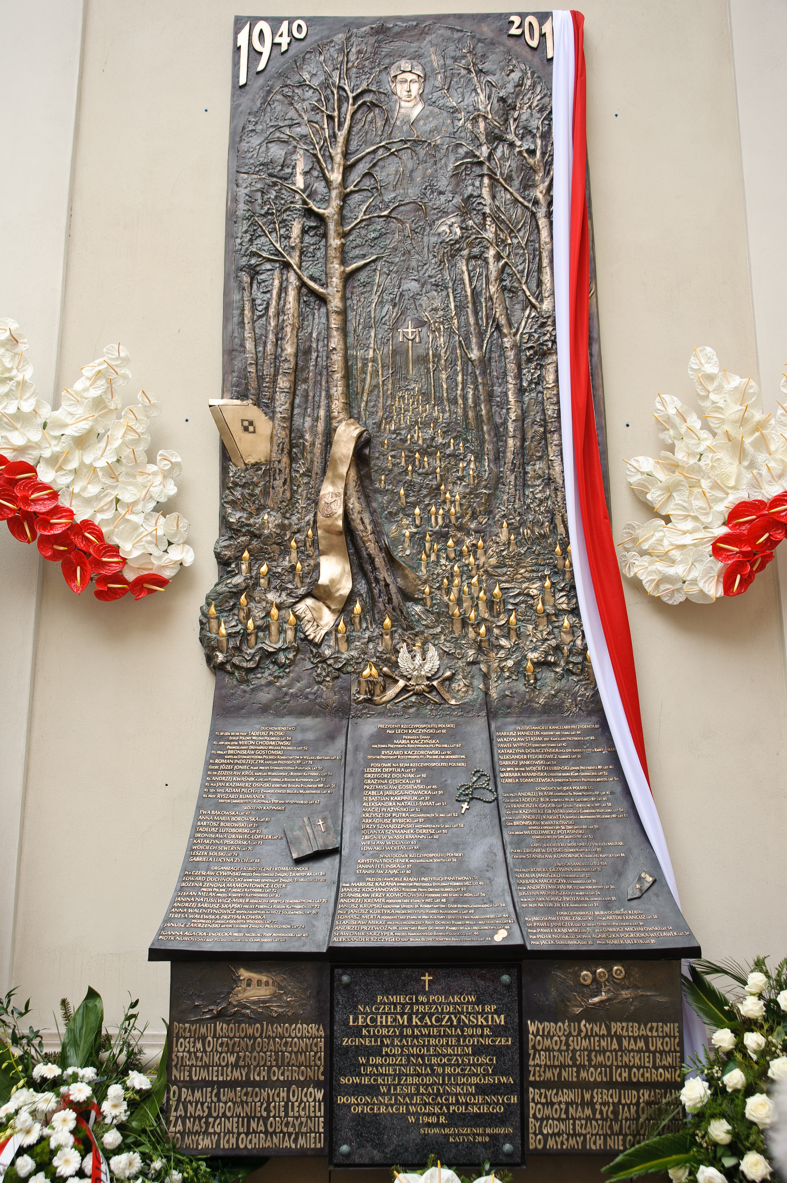 "Smolensk Epitaphy" on Jasna Góra Monastery, created by Lech Dziewulski